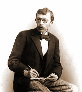 Portrait of the artist Konstantin Pervukhin